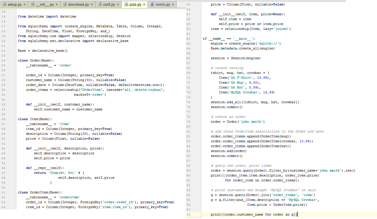 This is an example of data mining code in python.It's my own photo.